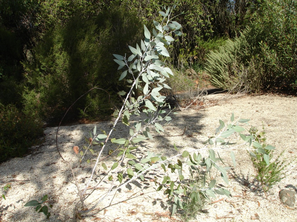 Photographed at Maranoa Gardens, Melbourne, Victoria, Australia HelloMojo 08:07, 6 April 2007 (UTC)